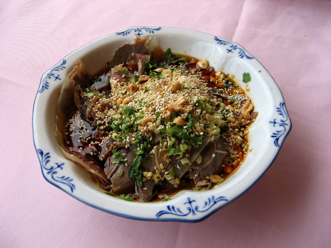 Fuqi Fei Pian, Photo by Dice 2006.06.21